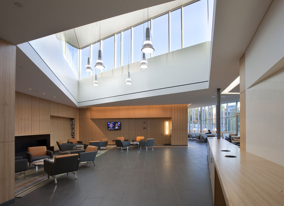 Brandeis University Admissions Building Interior